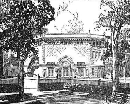 Herman Lee Meader's design for the Greenwich Village Theatre in Sheridan Square, Manhattan, New York City, c.1917